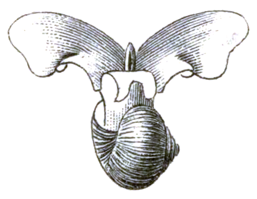 Drawing of Limacina rangii (d'Orbigny, 1834) (synonym: Limacina antarctica).